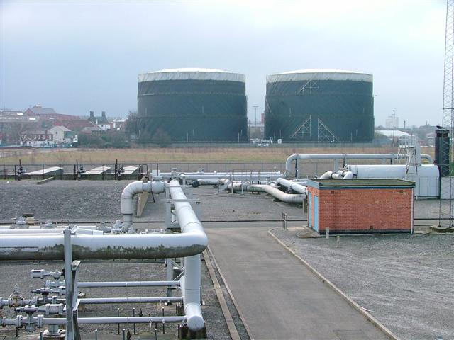 Basford Gas Works. Viewed from the Ring Road bridge this 19-acre former gasworks site at Basford was the principal gas production facility for the City of Nottingham from 1854 to 1972 when the site stopped producing gas. After 1972 the site was used as a depot and training facility for British Gas. More recently the site has undergone an extensive soil washing process by the National Grid to remove contamination.